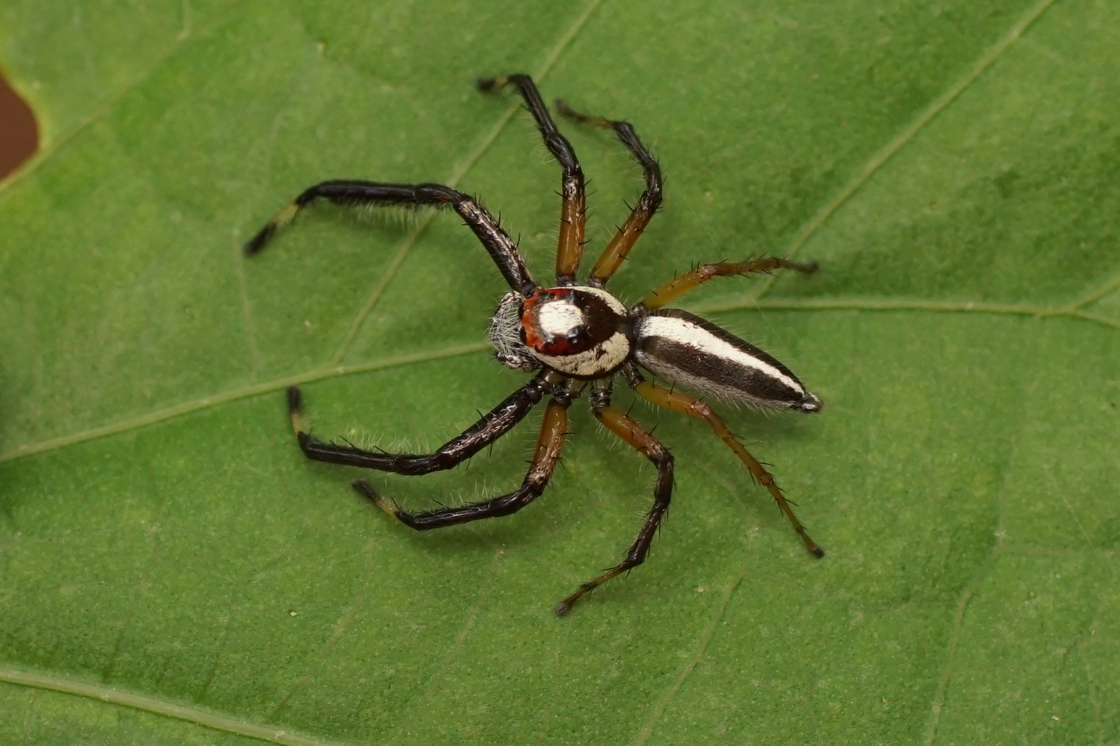 Telamonia dimidiata (♂), Kerala, India.